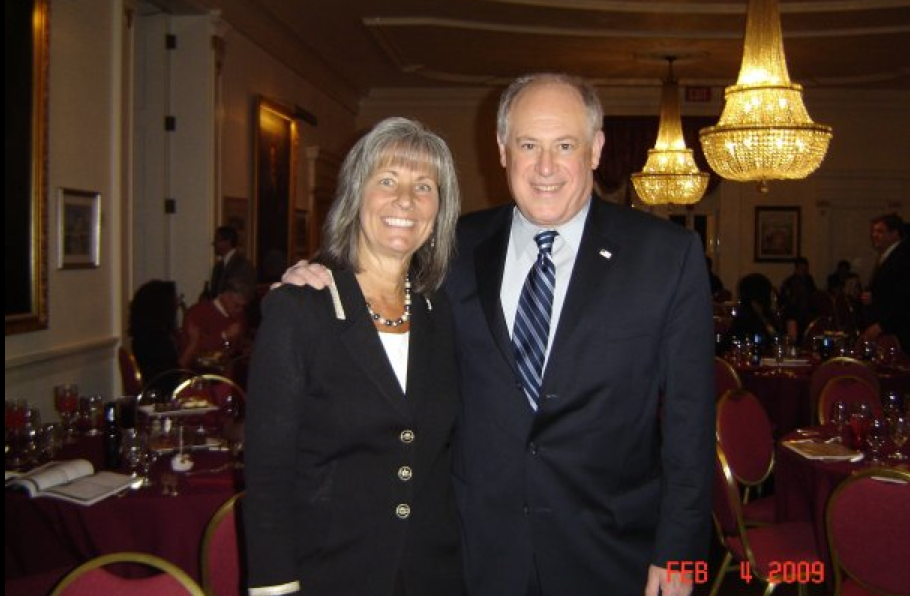 Susan Garrett (Illinois state senator, 29th legislative district) and Pat Quinn (Governor of Illinois)